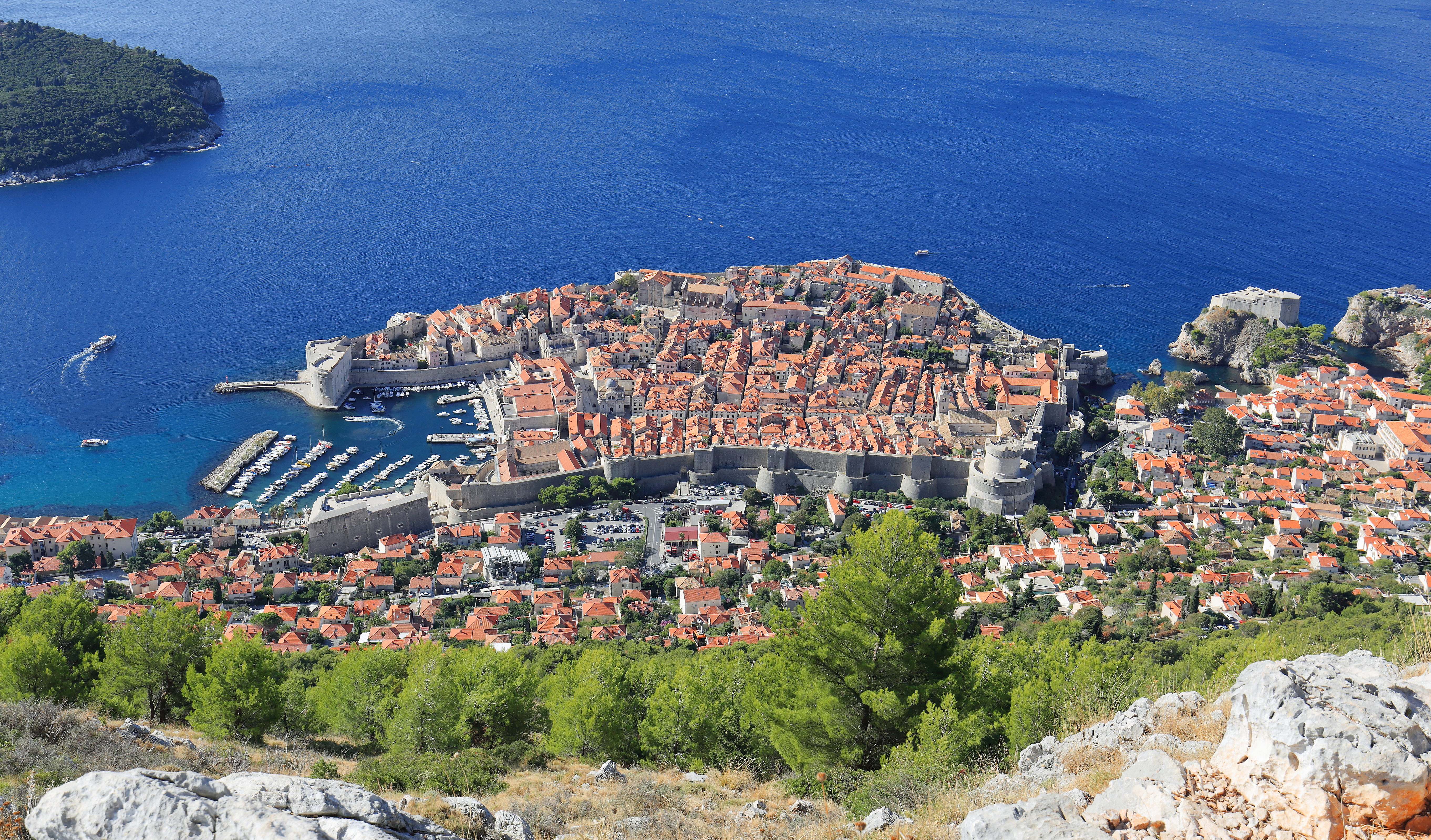 Dubrovnik, UNESCO World Heritage Site Ref. Number 95, as seen from Srđ.